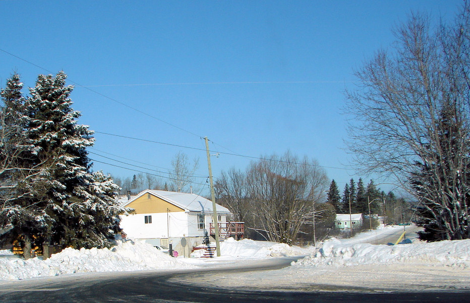 McKerrow (Baldwin Township), Ontario, Canada